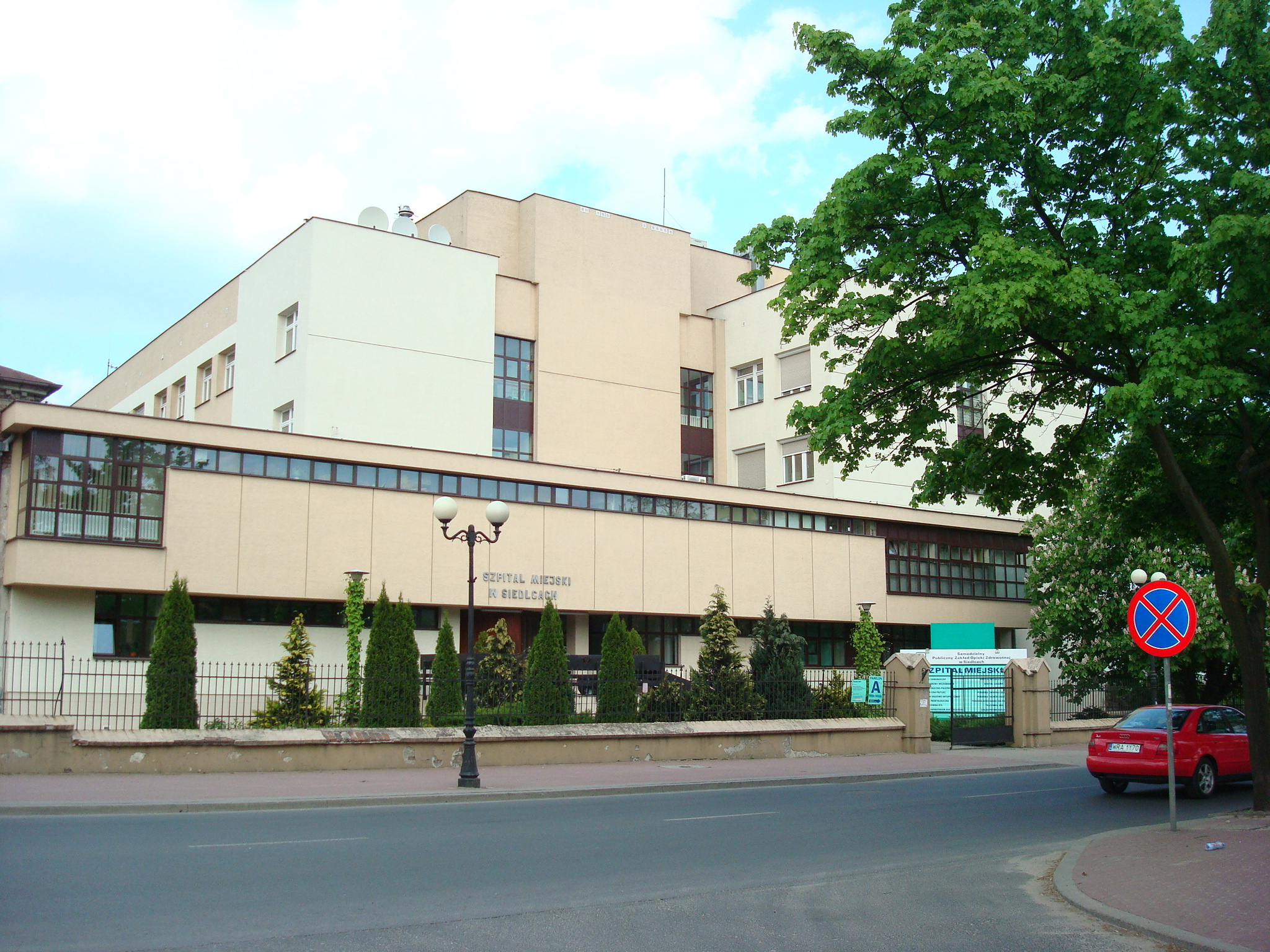 City hospital in Siedlce